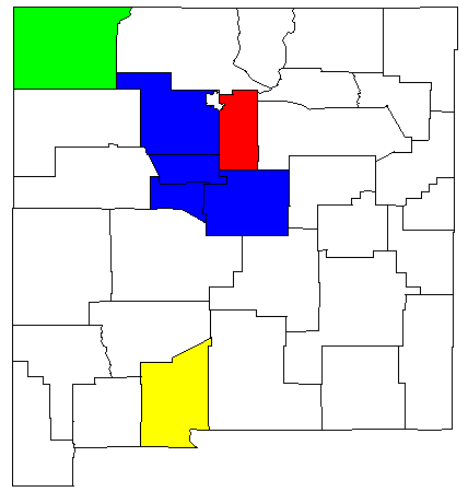 Map of New Mexico's metropolitan areas; created with the GIMP. Made by User:Acntx.